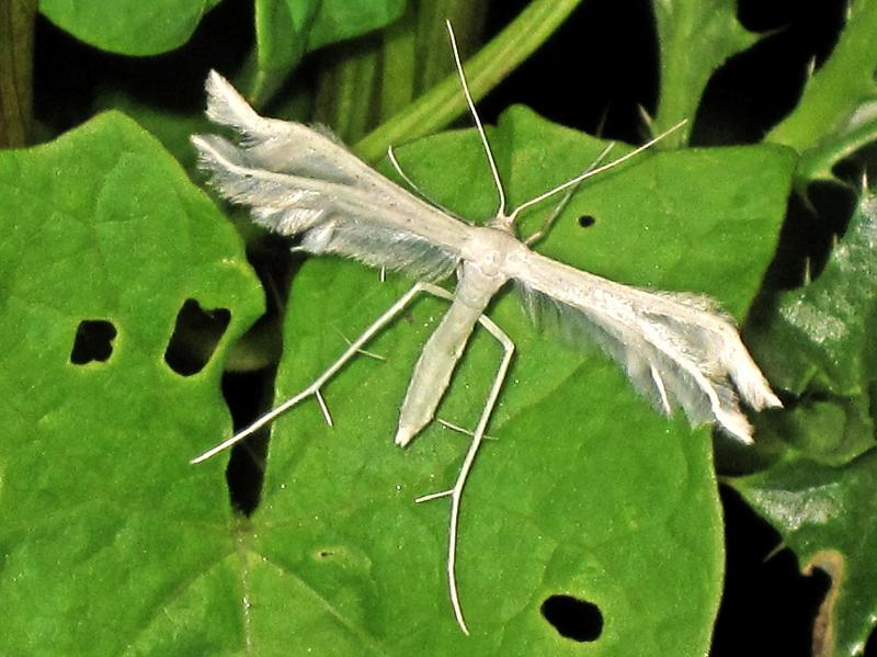 Pterophorus pentadactyla (White Plume Moth), Elst (Gld), the Netherlands